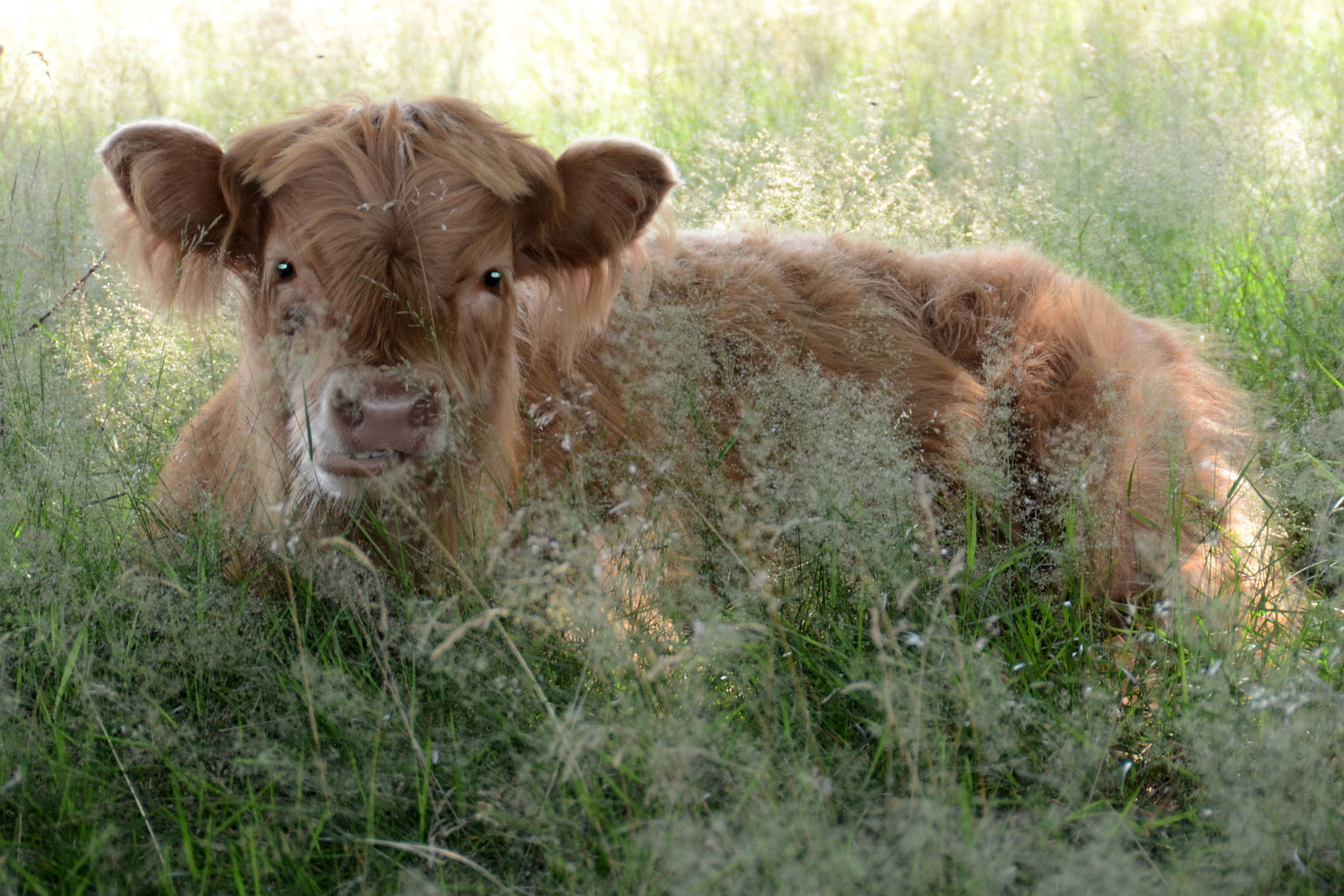 Another baby cow, thats trying to hide in the grass! Deelerwoud sunday 22 July 2012